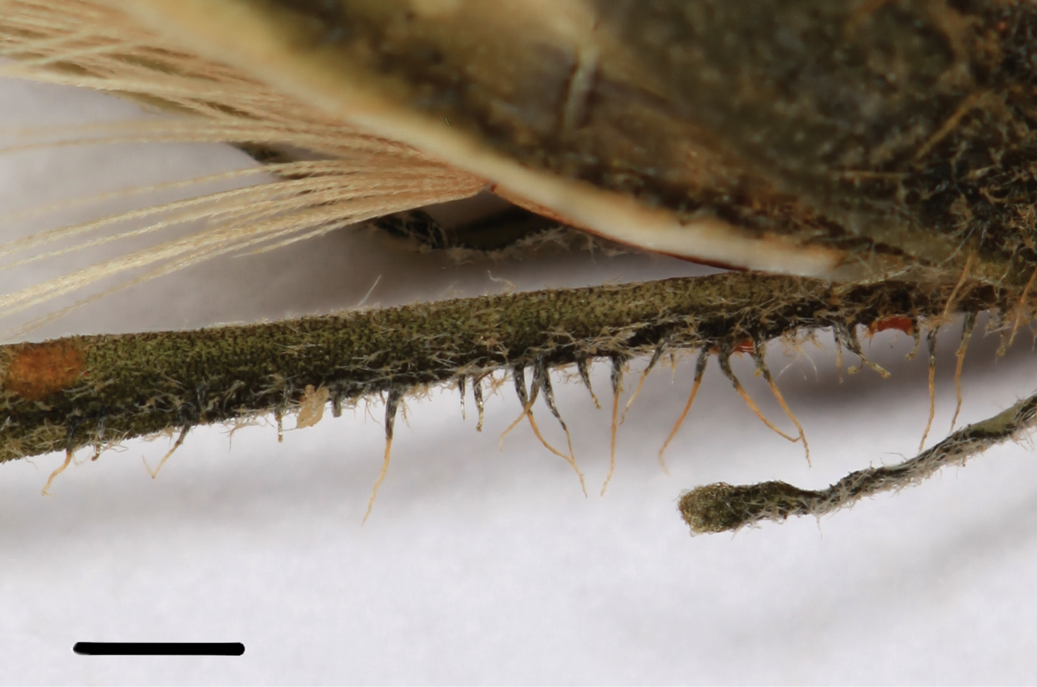 Pubescence on the phyllaries of Hieracium sinoaestivum Sennikov (Harry Smith 7219, S). Scale bar: 1 mm.